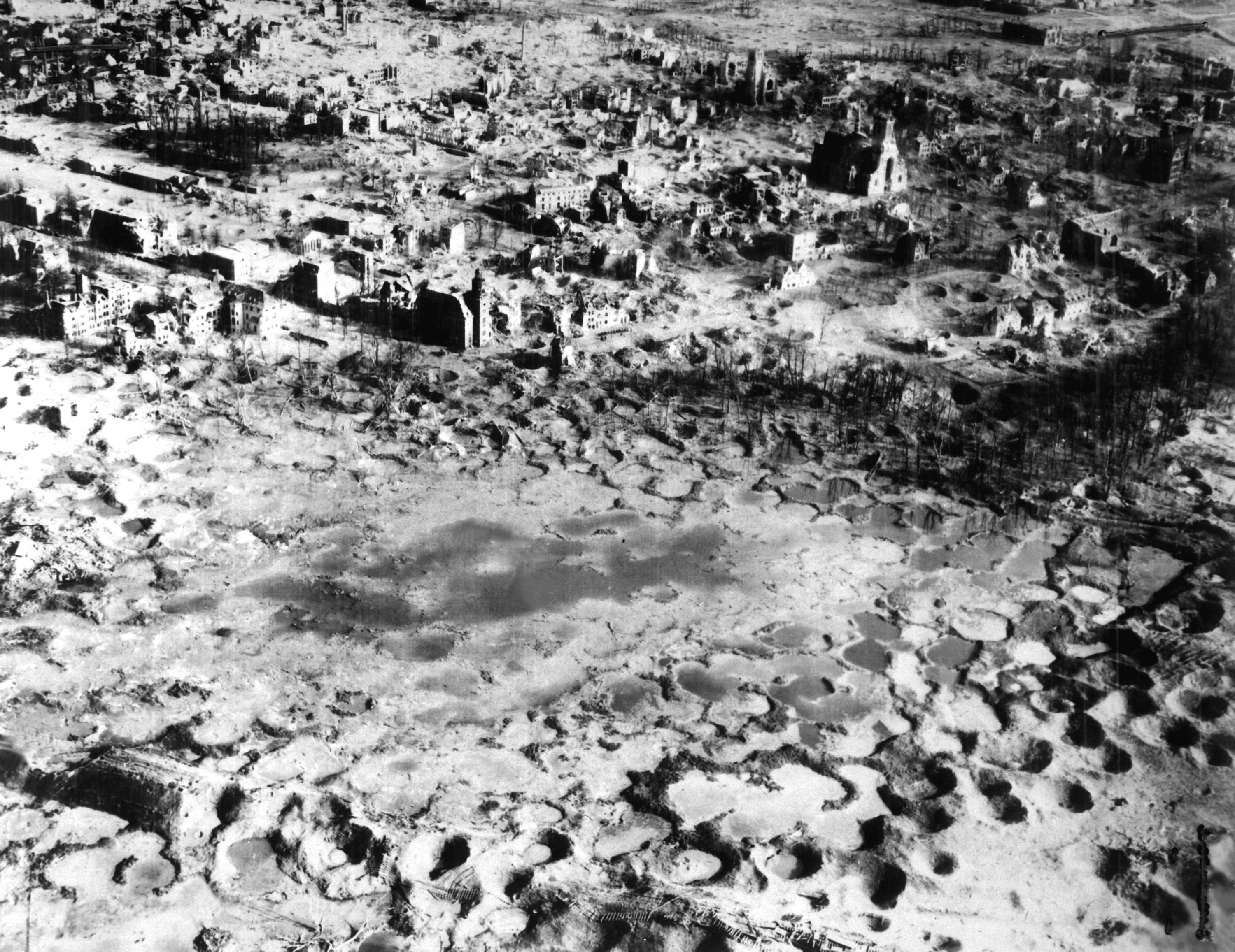 The city of Wesel, devastated by Allied bombing in preparation for the crossing of the Rhine on 22-23 March 1945. Original description: "Walls of houses of Wesel still stand, as do the churches, but a great part of the town was destroyed when the German commander forced the Allied troops to fight their way street by street through the ruins. Germany, 1945."